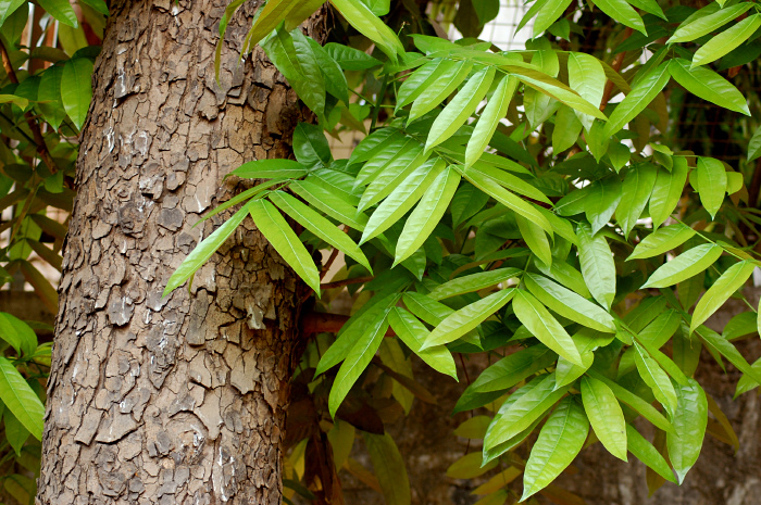 Bark and leaves of Swietenia macrophylla from Meliaceae.